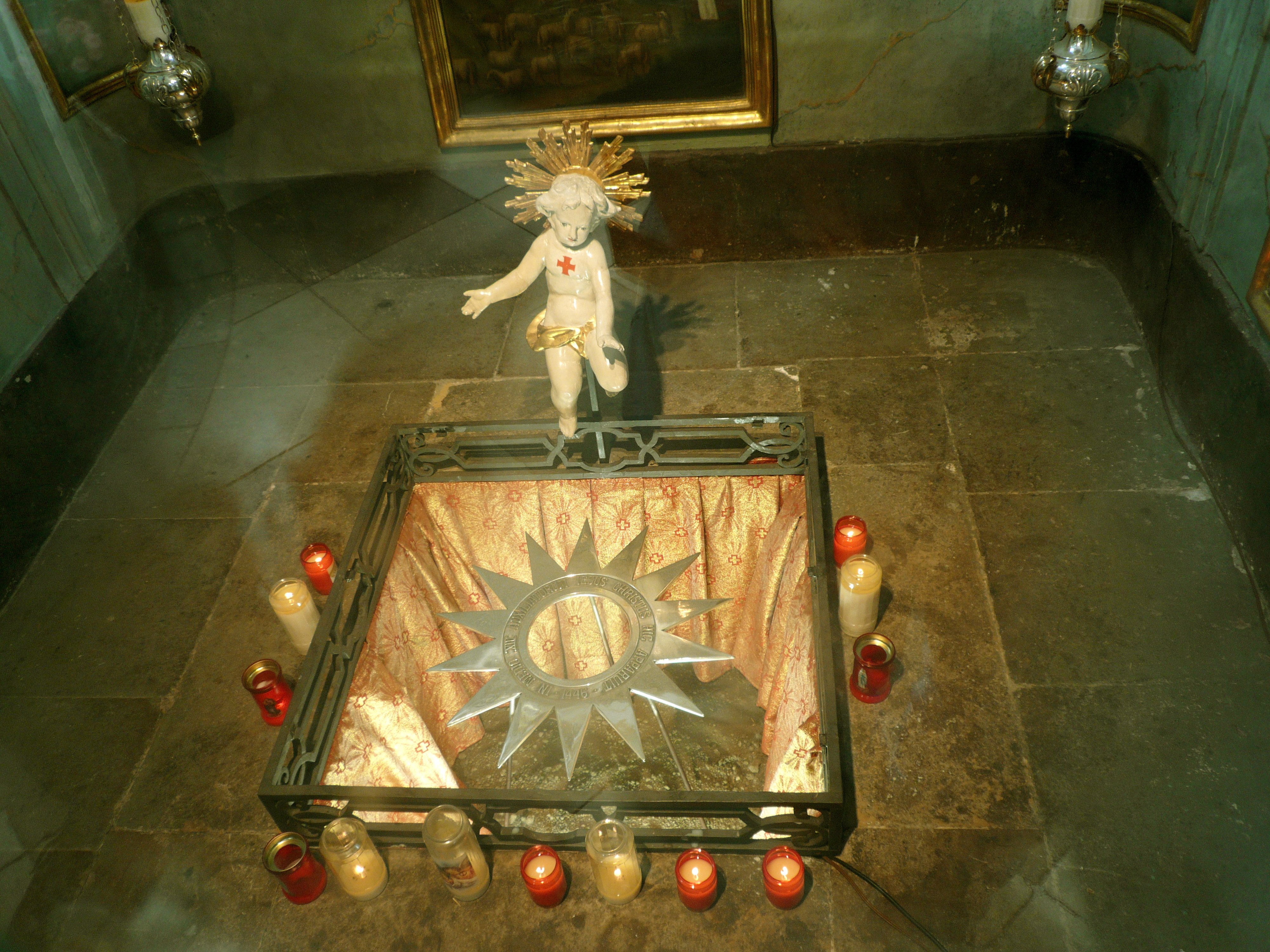 Basilika of Vierzehnheiligen, place where Jesus is said to have appeared in 1446